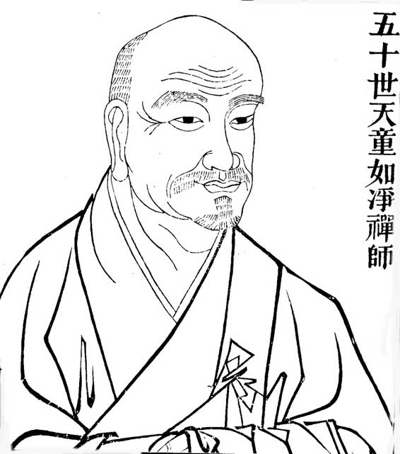 Image of Tiantong Rujing, a Chinese Zen monk of the 13th century